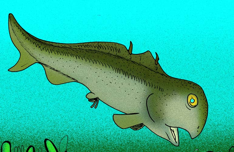 Reconstruction of the Mazon Creek holocephalid, Polysentor gorbairdi, of the Late Carboniferous